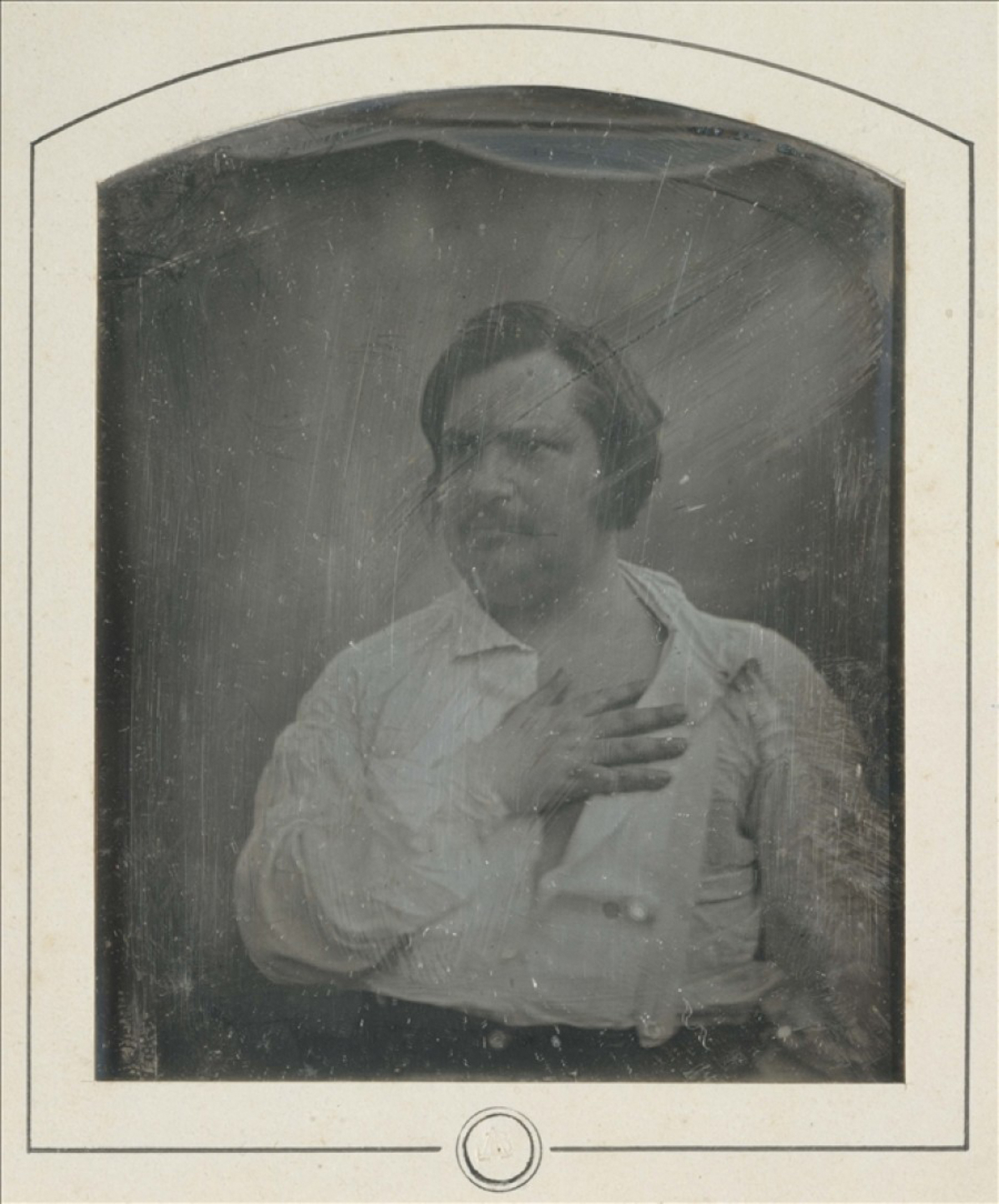 The original daguerrotype of Honoré de Balzac by Louis-Auguste Bisson